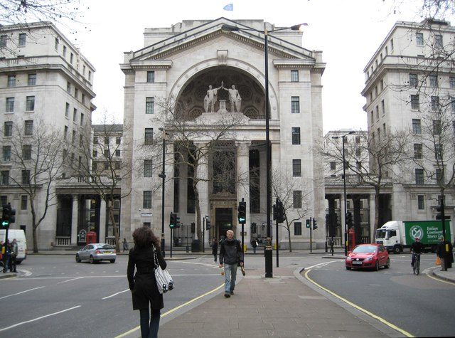 Aldwych: Bush House, WC2 The description of Bush House on the BBC's website is concise and informative All I would add is that the blue flag flying on the top of Bush House in this image is that of the BBC World Service. The lack of symmetry in the road layout, where there is a wide southbound carriageway and a narrow northbound carriageway, can be explained by the fact that some northbound traffic here is running in the Strand Underpass, which is directly beneath the photographer, and that there is no southbound equivalent. See 668779 for a view in the reverse direction from this viewpoint.